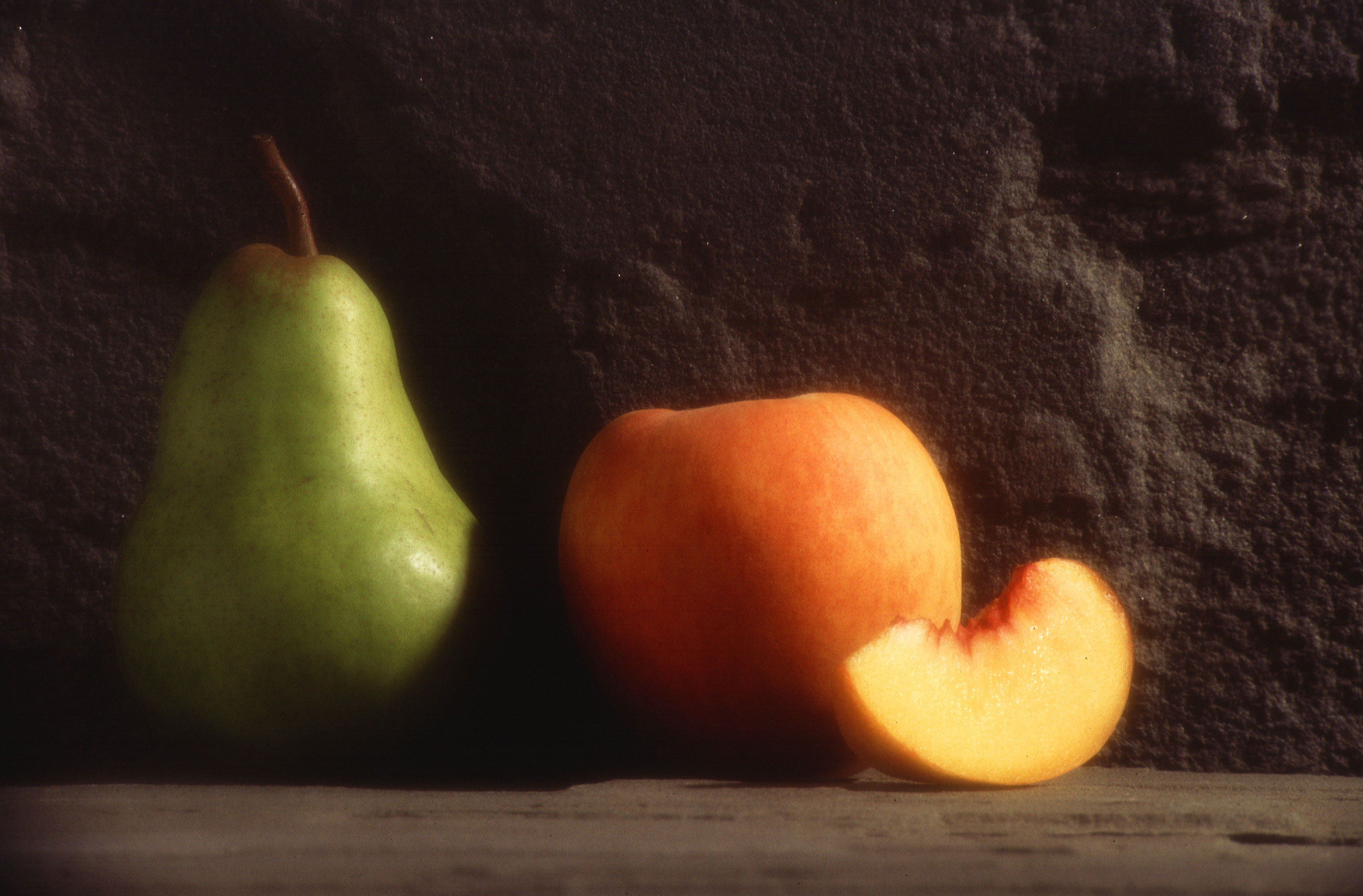 We think of peaches as coming from Georgia. Well, they do, but not exclusively. ARS researchers at Kearneysville, West Virginia, have released varieties that reliably produce sunny, juicy peaches in northerly climes. Look for them to do well despite the harsh winters of, say, central Pennsylvania. A laboratory technique called embryo culture has proven especially helpful in creating new peach varieties. When carefully nurtured in petri dishes, tiny embryos that could not survive in nature are cultivated into plantlets. Tended carefully in the greenhouse, the plantlets can eventually be planted outdoors in the research orchard. With regard to the many insect and disease problems that afflict orchard crops, ARS scientists look for nonchemical, environmentally friendly solutions whenever possible. for example, they've developed breeding lines that are resistant to Peach Tree Short Life, and a bacterial biocontrol that prevents brown rot on fruit. Pear research has also borne fruit. Thanks to years of pest control studies, the fire blight and pear psylla problems that long ago wiped out the U.S. East Coast pear industry have yielded to a variety of new controls. We've even come up with computer programs to help growers predict when fire blight will strike, so they can be ready for it. The program, which has been tested in over 20 locations throughout the United States and Canada, has resulted in better fire blight control and has reduced the number of sprayings that orchards receive.